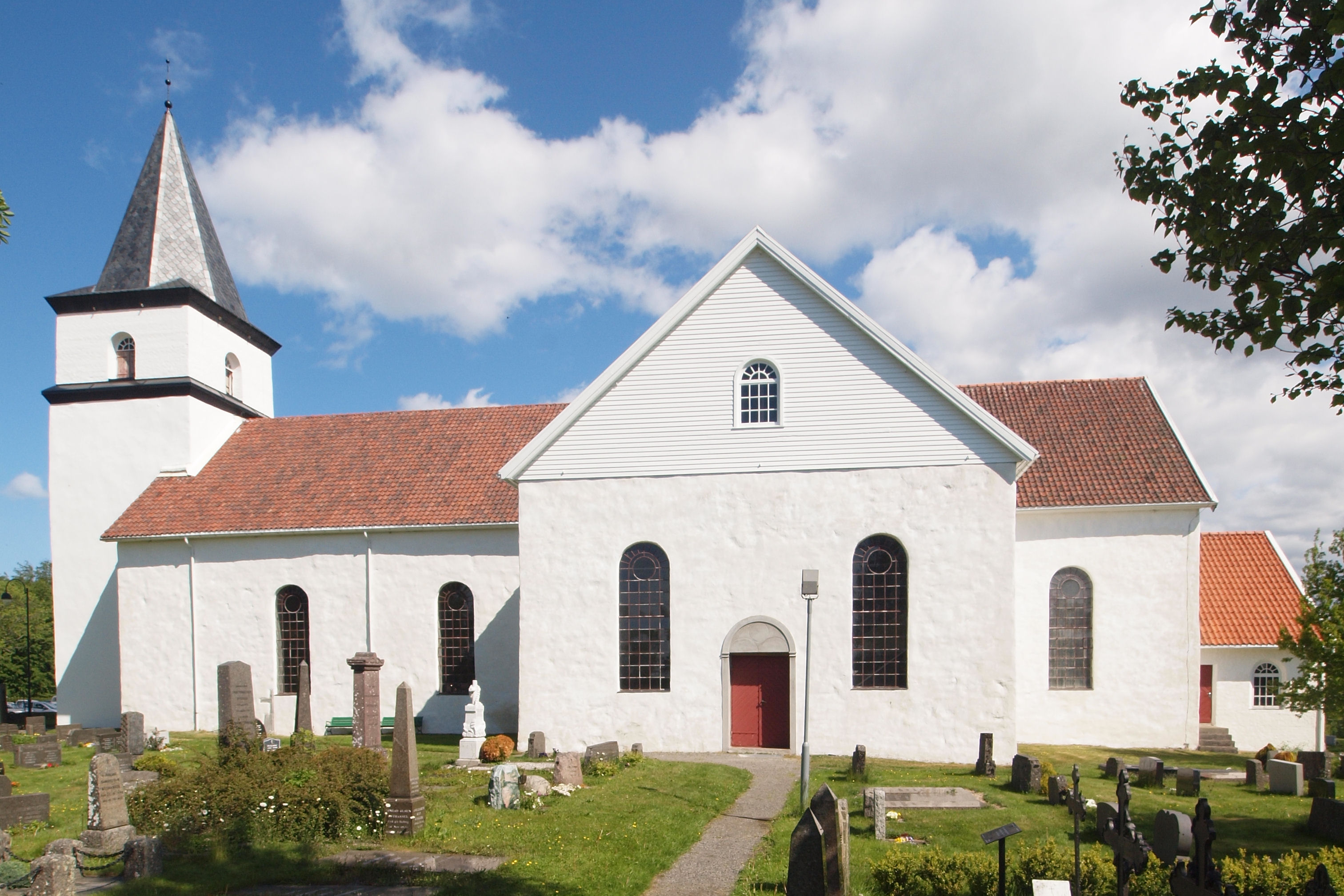 Kirchen Vanse , Norwegen